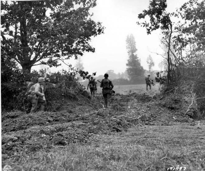 Per the Archives de la Mache: GI's move forward through breach in hedgerow made by bulldozer. 9th div. France. 25/07/44. Per Anthony Beevor, D-Day (ISBN:978-0-670-88703-3) attributes the gap being created by a Rhino Tank